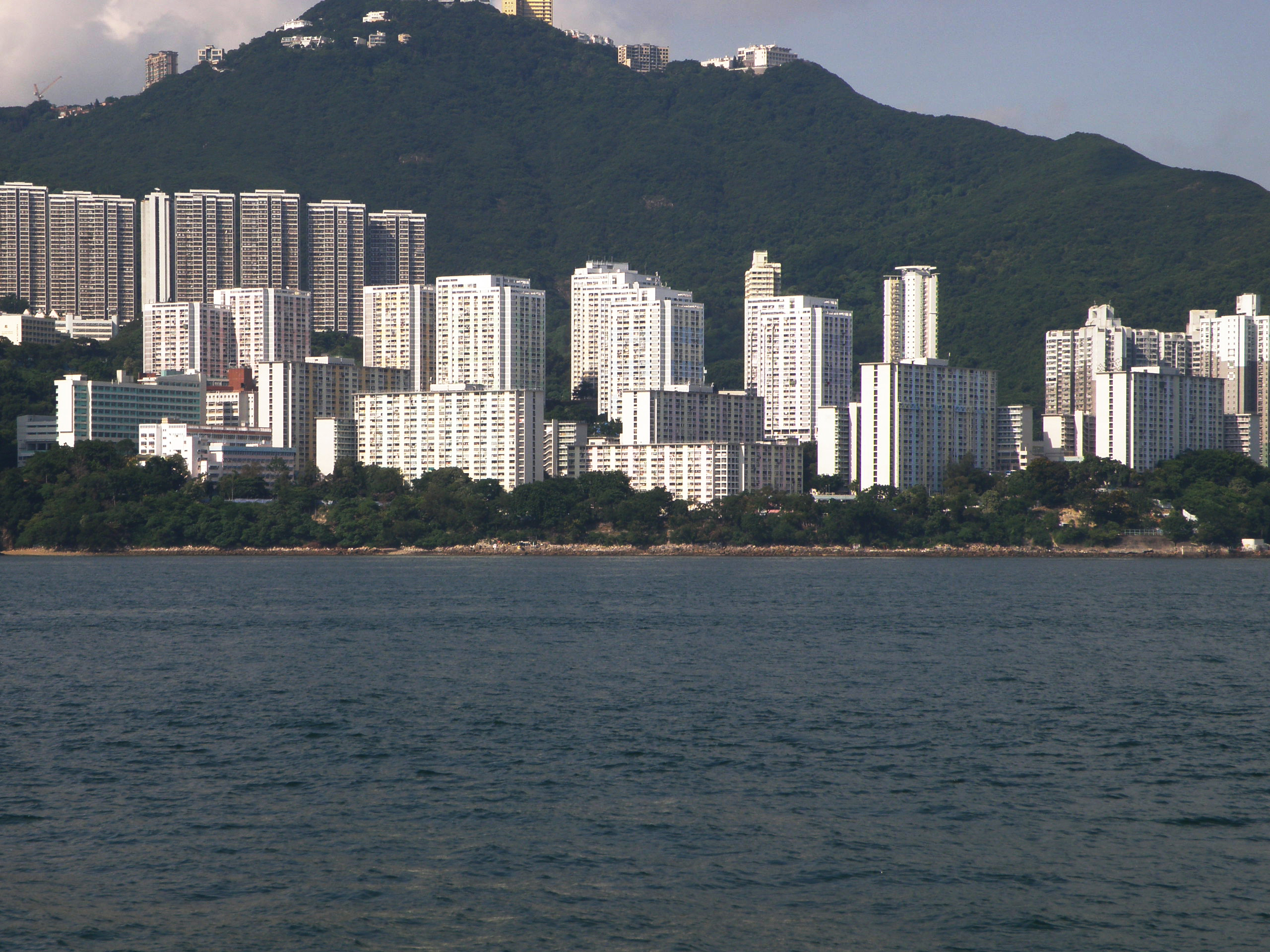 Wah Fu Estate in Pok Fu Lam, Hong Kong.